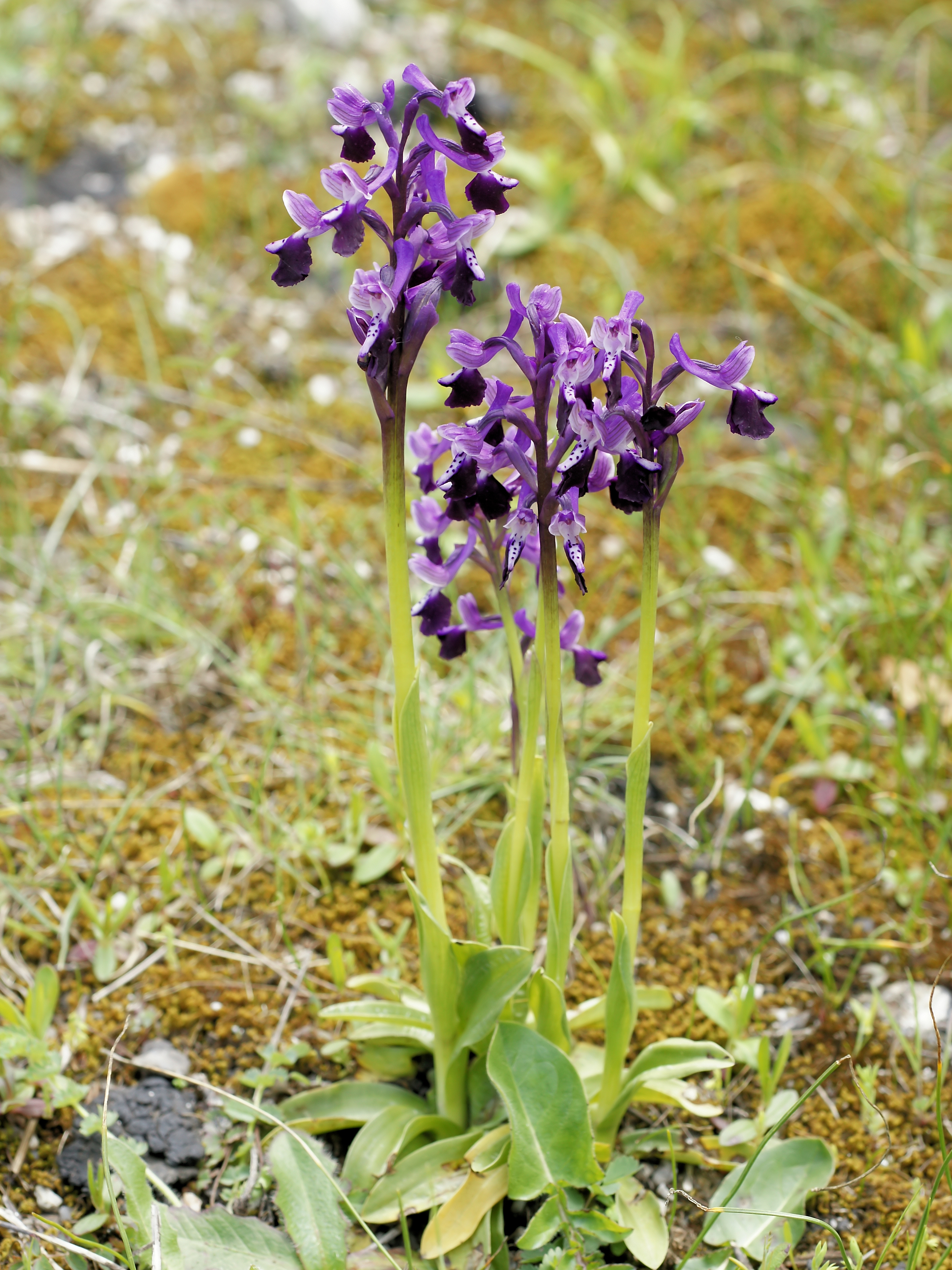 Long-spurred Orchid. Approximate co-ordinates: plant located within 5 km from Neoneli, Sardinia, Italy